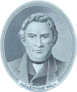 Nólsoyar Páll, from the 50-kroner Faroese banknote issued in 1967